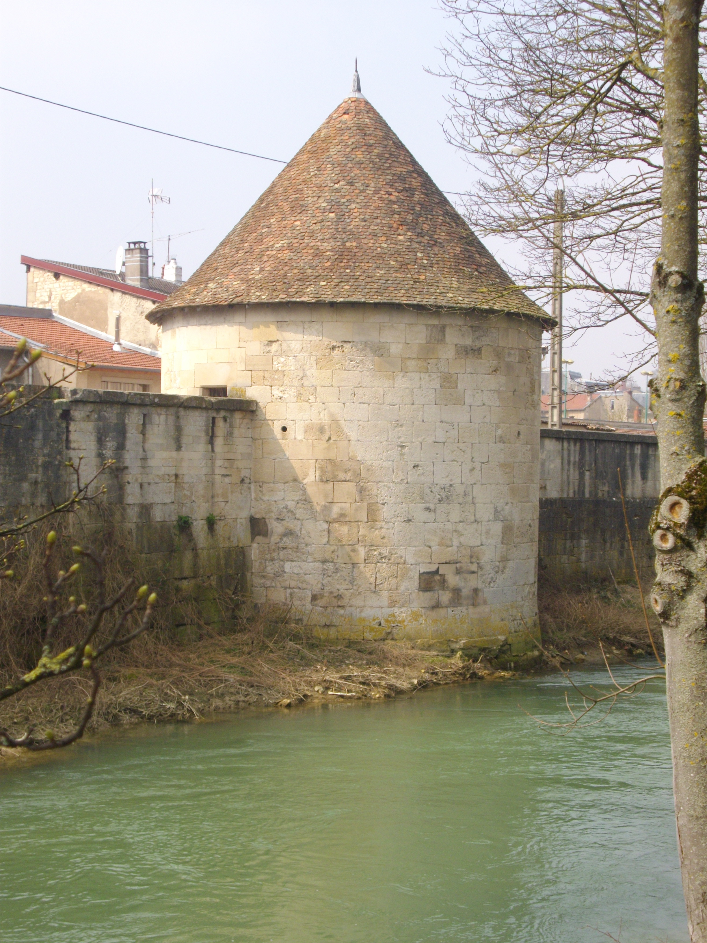 Islot tower in Verdun (Meuse, France) .